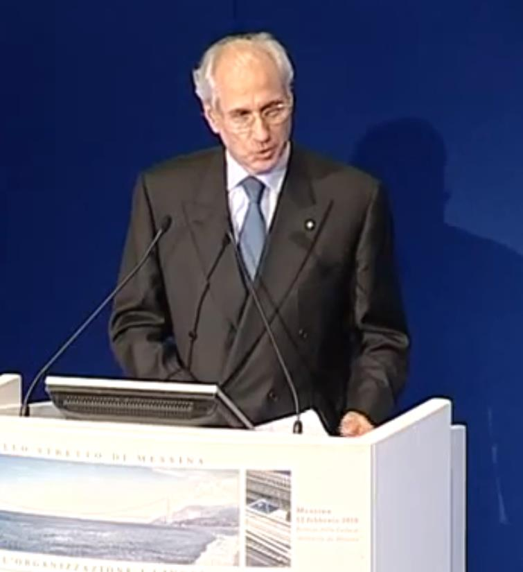 Pietro Cicci former ANAS President during the presentation of the Strait of Messina Bridge at the Palace of Culture of Messina on 12 February 2010.